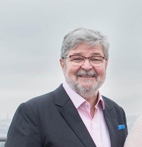 Detail of Eduard Kučera.